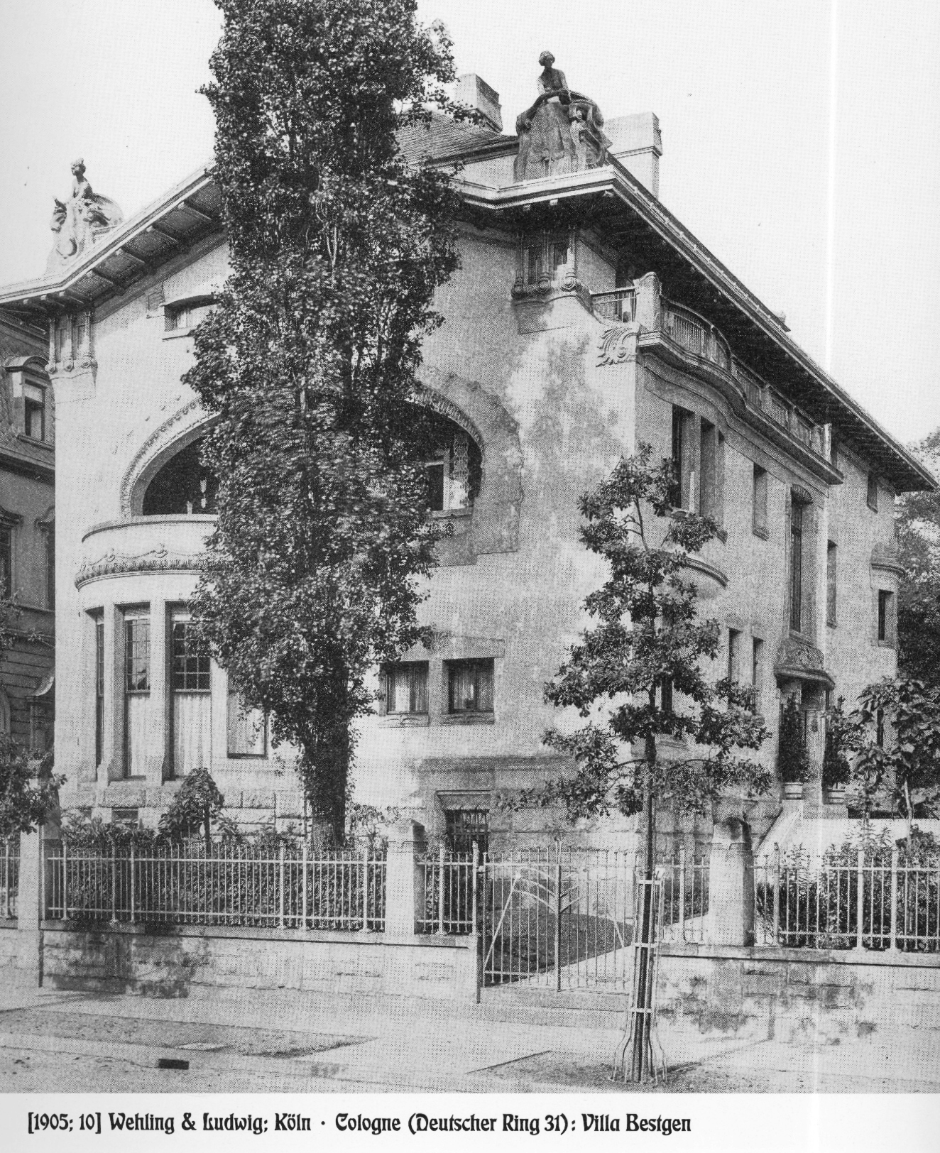 t